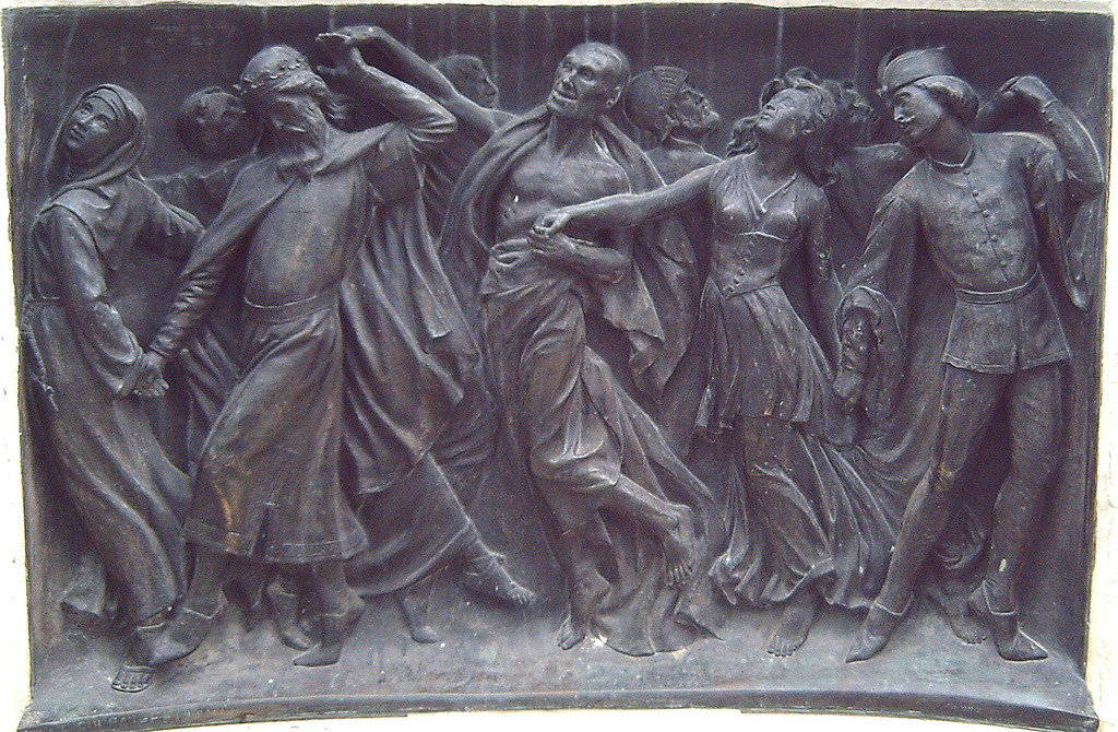 Bronze relief representing The Dance of Death. Detail of the monument to Pedro Calderón de la Barca (1600–1681) at the Plaza de Santa Ana (square) in Madrid (Spain), made of marble and bronze by Joan Figueras Vila (1829–1881) in 1878 and inaugurated in 1880.